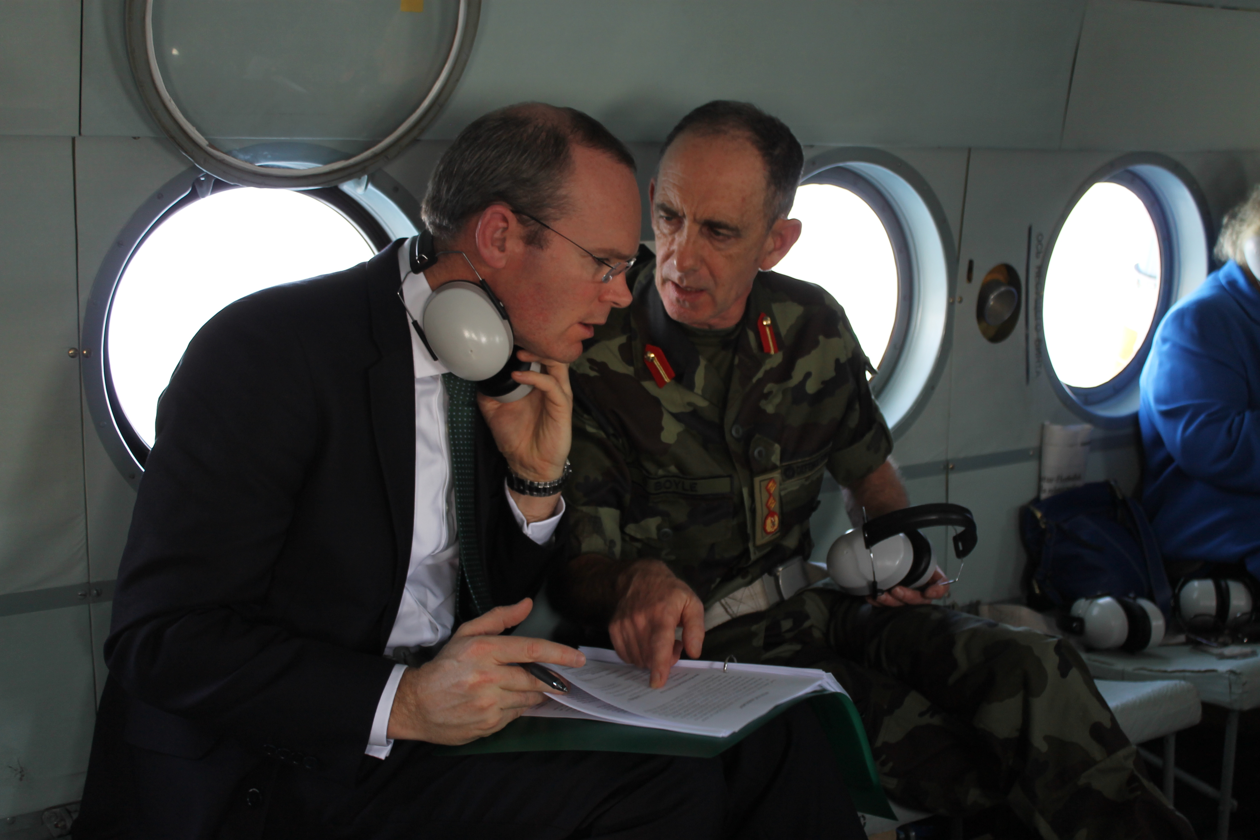 Chief of Staff of the Irish Defence Forces Lieutenant General Conor O'Boyle briefs the Minister for Defence Mr. Simon Coveney (T.D.) during a United Nations helicopter flight to 47 Infantry Group Headquarters in At Tiri South Lebanon.